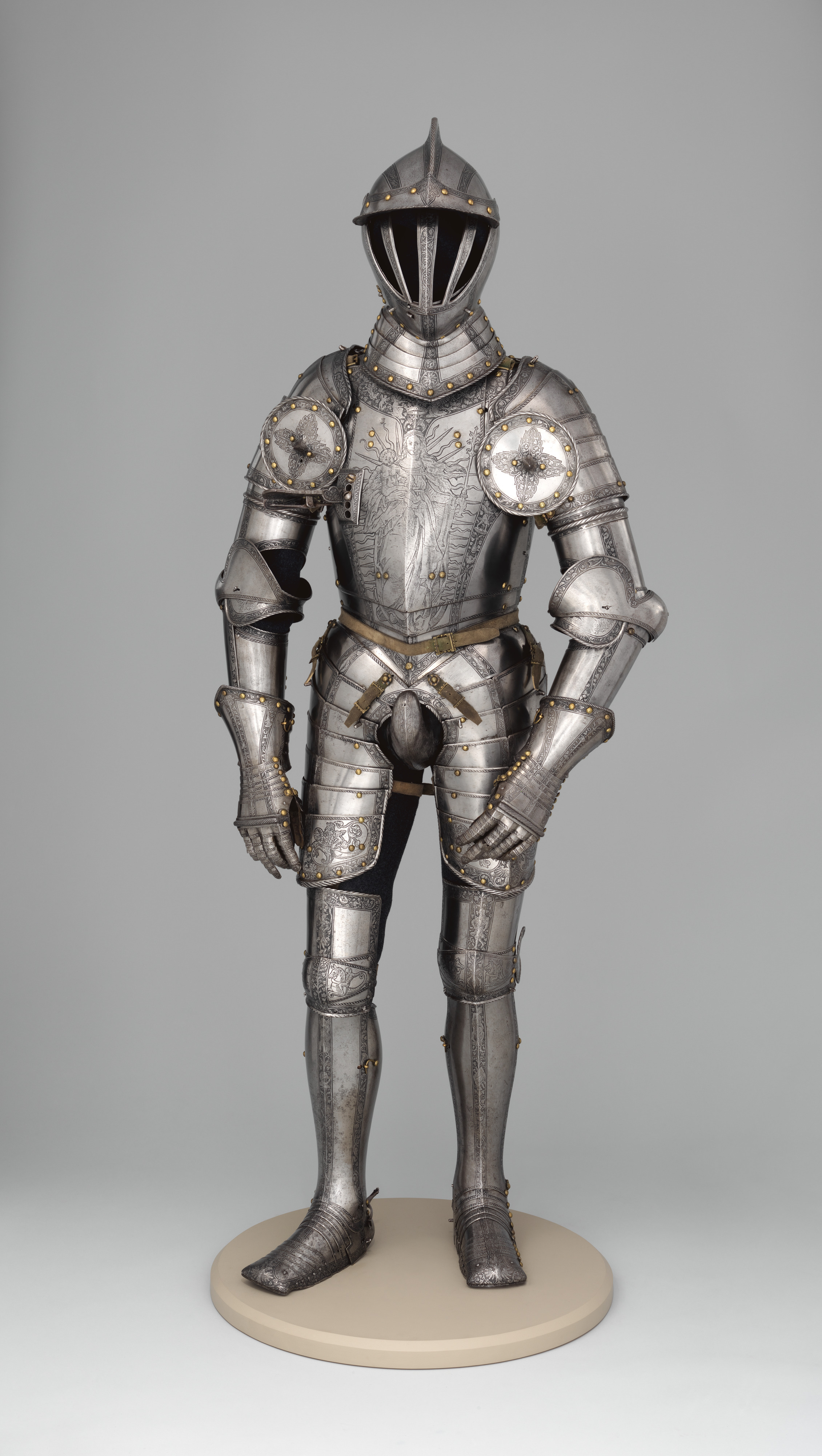 Armor of Emperor Ferdinand I; German; Armor for Man